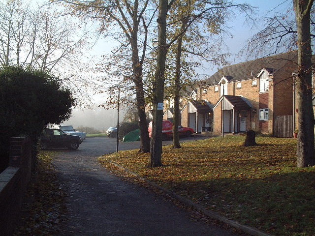 Lime Close. One of several new residential roads off Wiltshire Lane on the site of the former St Vincent's Farm.